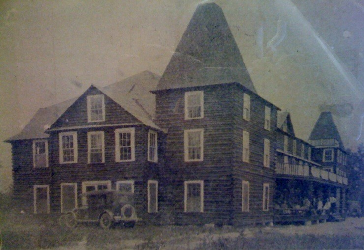 Ramsey Springs Hotel, circa 1920. Digital representation of Ramsey Springs Hotel photograph in private family collection.